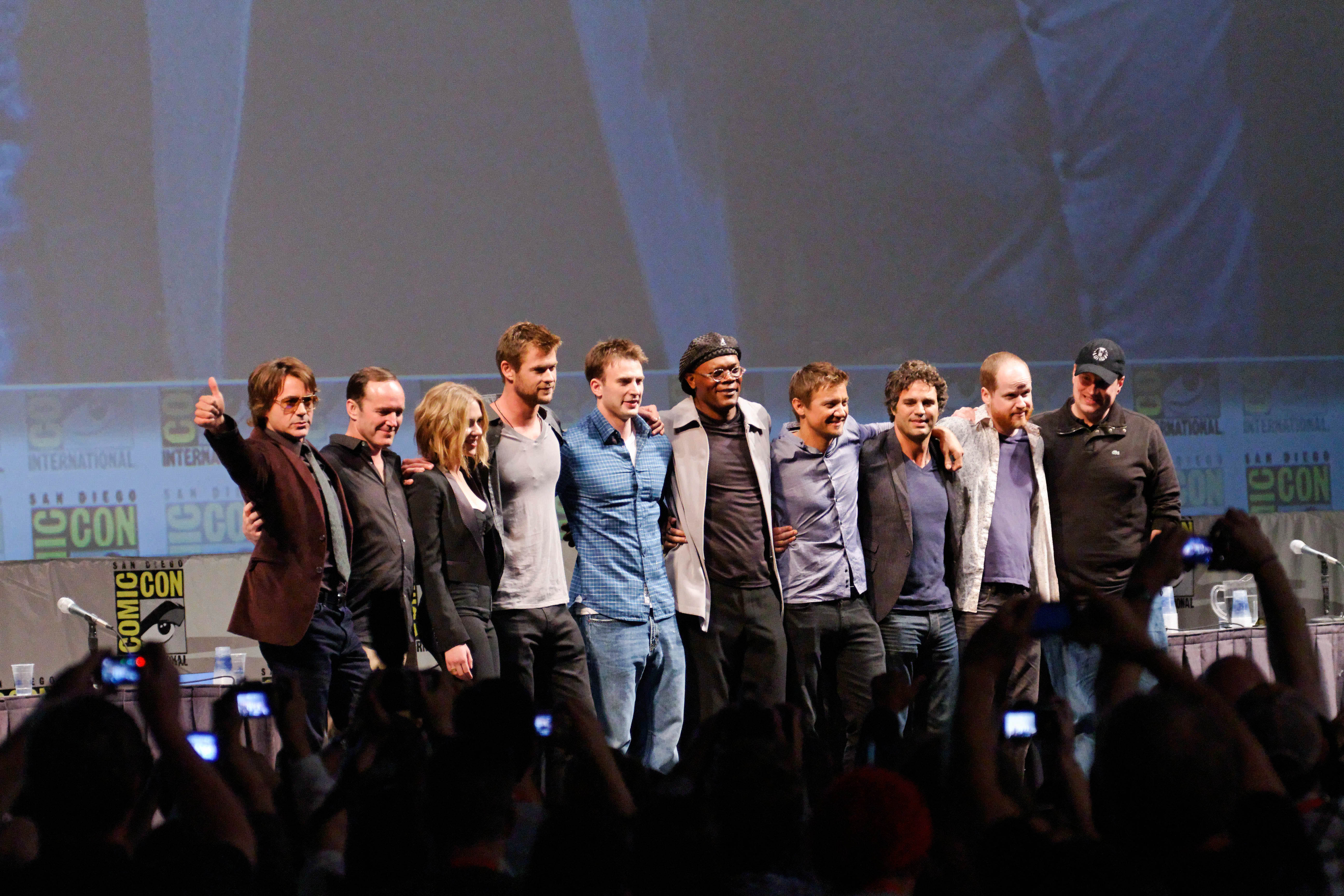 Cast of The Avengers at the 2010 San Diego Comic-Con International featuring Robert Downey Jr., Clark Gregg, Scarlett Johansson, Chris Hemsworth, Chris Evans, Samuel L. Jackson, Jeremy Renner, Mark Ruffalo, Joss Whedon and Kevin Feige.